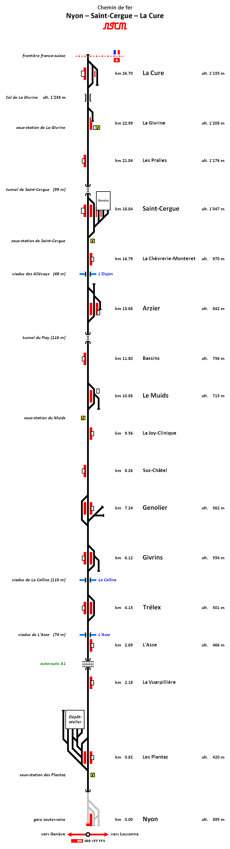 NStCM Line shema